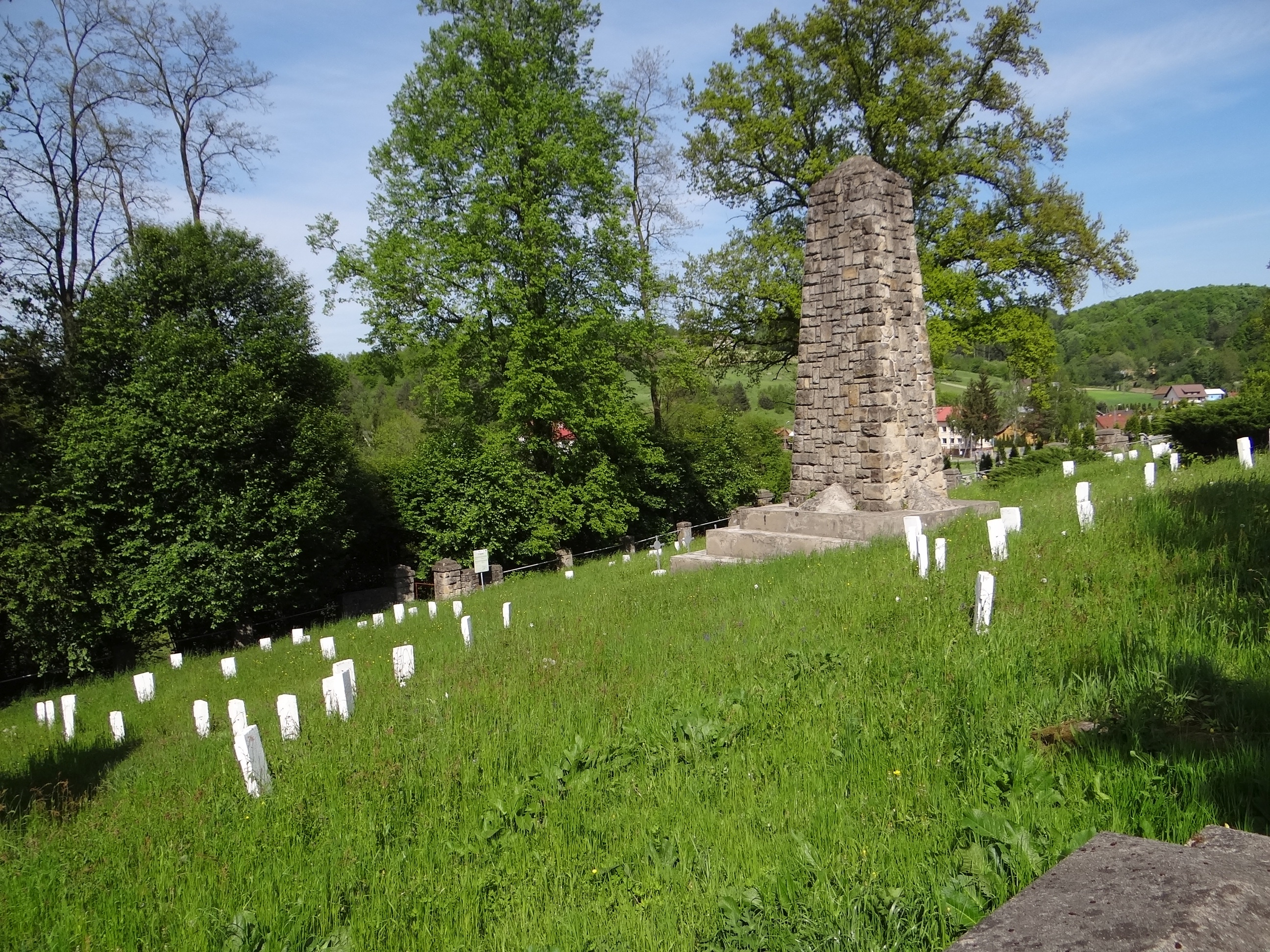 World War I Cemetery nr 114 in Rzepiennik Strzyżewski